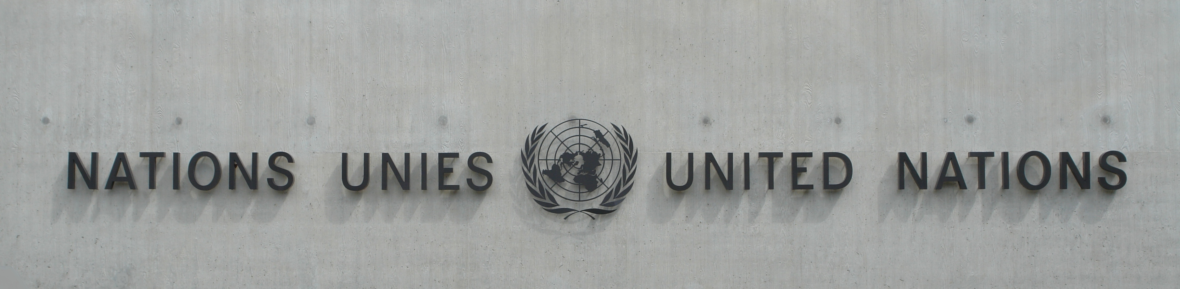 United Nations logo in French and English at the Palace of Nations (United Nations Office at Geneva).